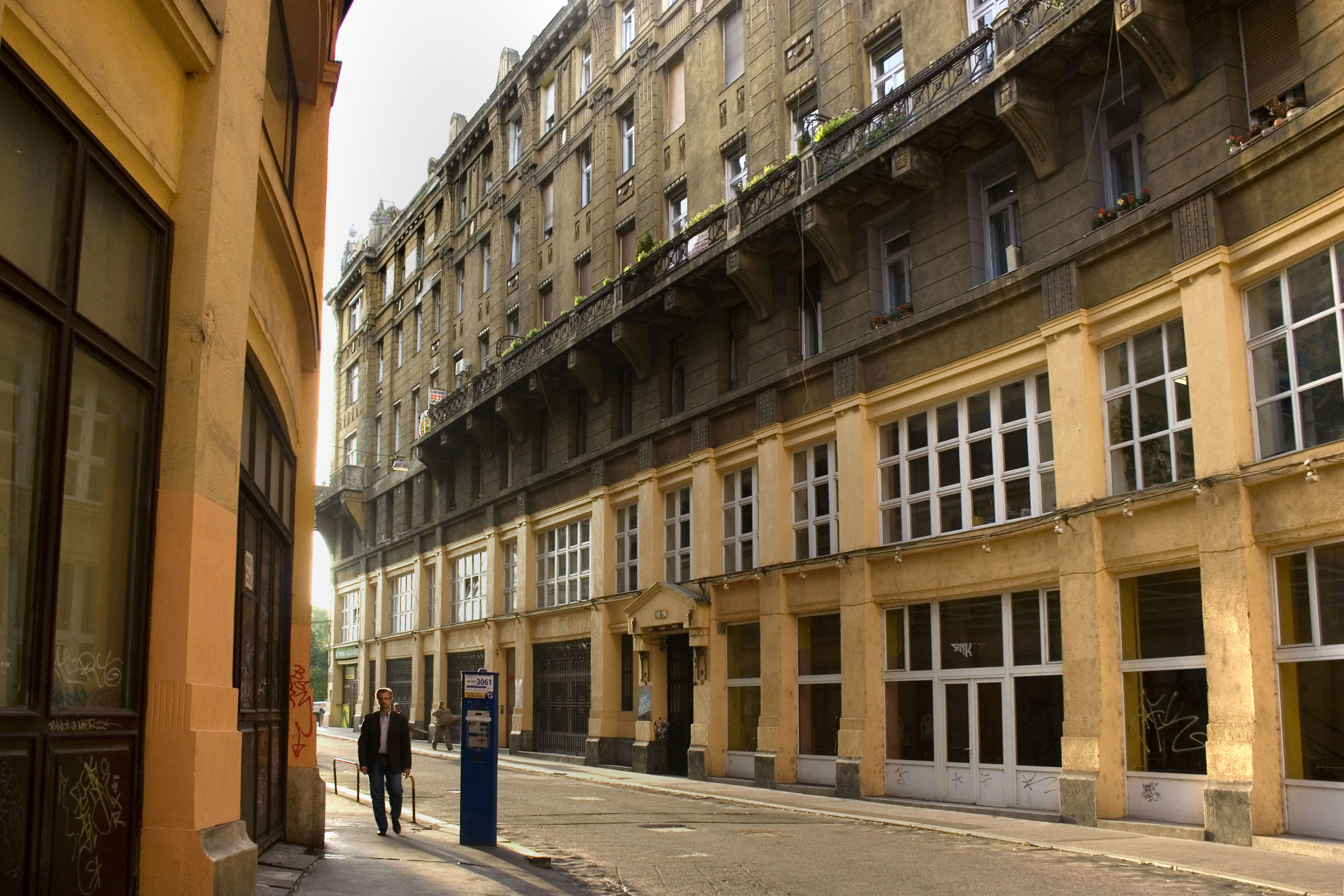 Hungary, Budapest, Downtown - Anker Palace with Anker street.